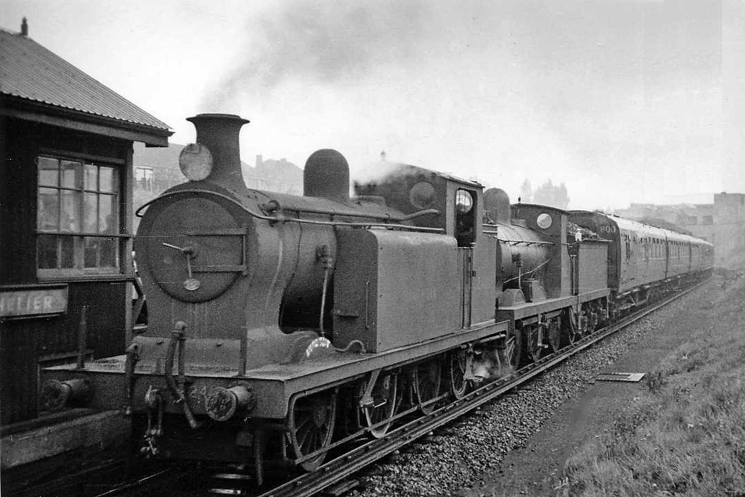 RCTS South London Rail Tour at St Helier. The train depicted in TQ2567 : Railway Correspondence & Travel Society South London Rail Tour at St Helier has now taken on ex-LB&SCR R. Billinton E6 class 0-6-2T No. 2418 to assist the C class 0-6-0 up the bank into Sutton station.